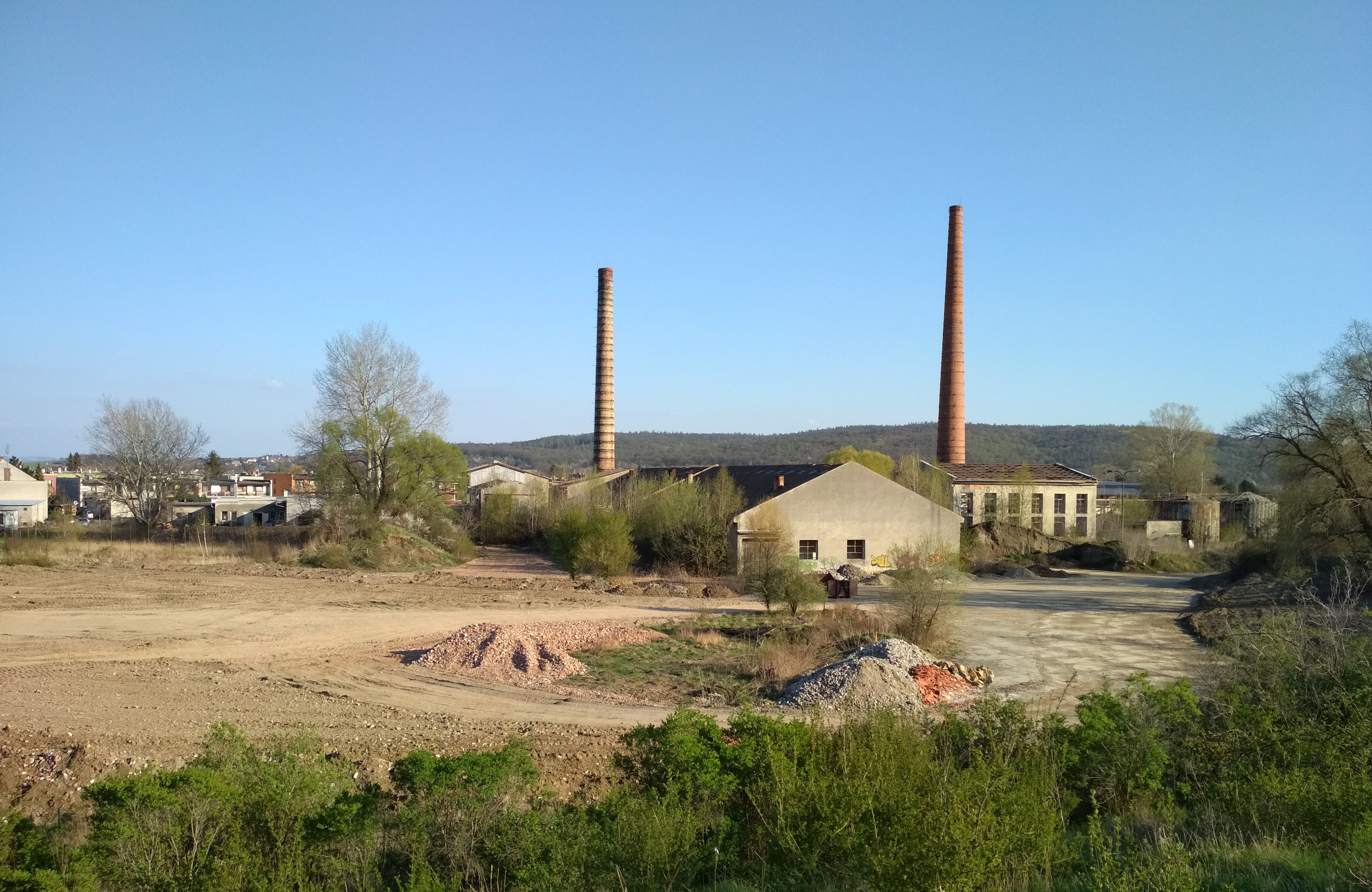 The area of the former brickyard in Vážany, the local part of Kroměříž, Czechia. Mining in the Vážanská brickyard was terminated in 1996. Later, the place became a source of protests by residents against the possible loading (reclamation) of the site with Otosan heating plant ash.